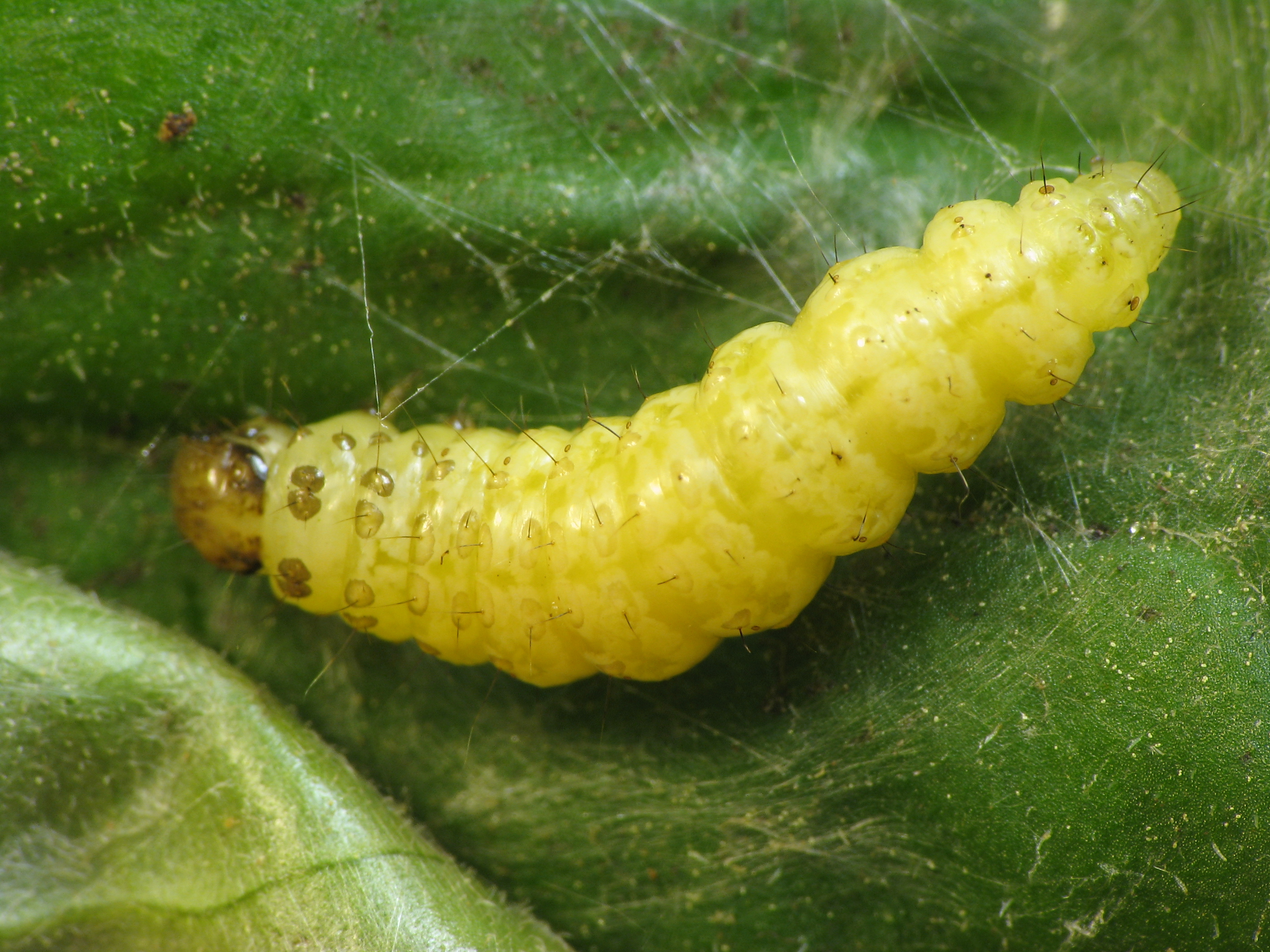 Crambid moth late instar caterpillar, Herpetogramma aeglealis (Serpentine Webworm - Hodges#5280), on wild ginger. Size: 15 mm. Opossum Creek Retreat, Fayette County, West Virginia, USA.